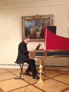 Frank Agsteribbe